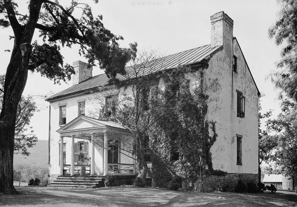 Evergreen, State Route 630 vicinity, Waterfall (Prince William County, Virginia) cropped, HABS VA,76-WATFA,1-1 This file comes from the Historic American Buildings Survey (HABS), Historic American Engineering Record (HAER) or Historic American Landscapes Survey (HALS). These are programs of the National Park Service established for the purpose of documenting historic places. Records consist of measured drawings, archival photographs, and written reports. When reusing please credit: Library of Congress, Prints & Photographs Division, VA-833 This tag does not indicate the copyright status of the attached work. A normal copyright tag is still required. See Commons:Licensing for more information. This work is in the public domain in the United States because it is a work prepared by an officer or employee of the United States Government as part of that person’s official duties under the terms of Title 17, Chapter 1, Section 105 of the US Code. See Copyright. Note: This only applies to original works of the Federal Government and not to the work of any individual U.S. state, territory, commonwealth, county, municipality, or any other subdivision. This template also does not apply to postage stamp designs published by the United States Postal Service since 1978. (See § 313.6(C)(1) of Compendium of U.S. Copyright Office Practices). It also does not apply to certain US coins; see The US Mint Terms of Use. This file has been identified as being free of known restrictions under copyright law, including all related and neighboring rights.